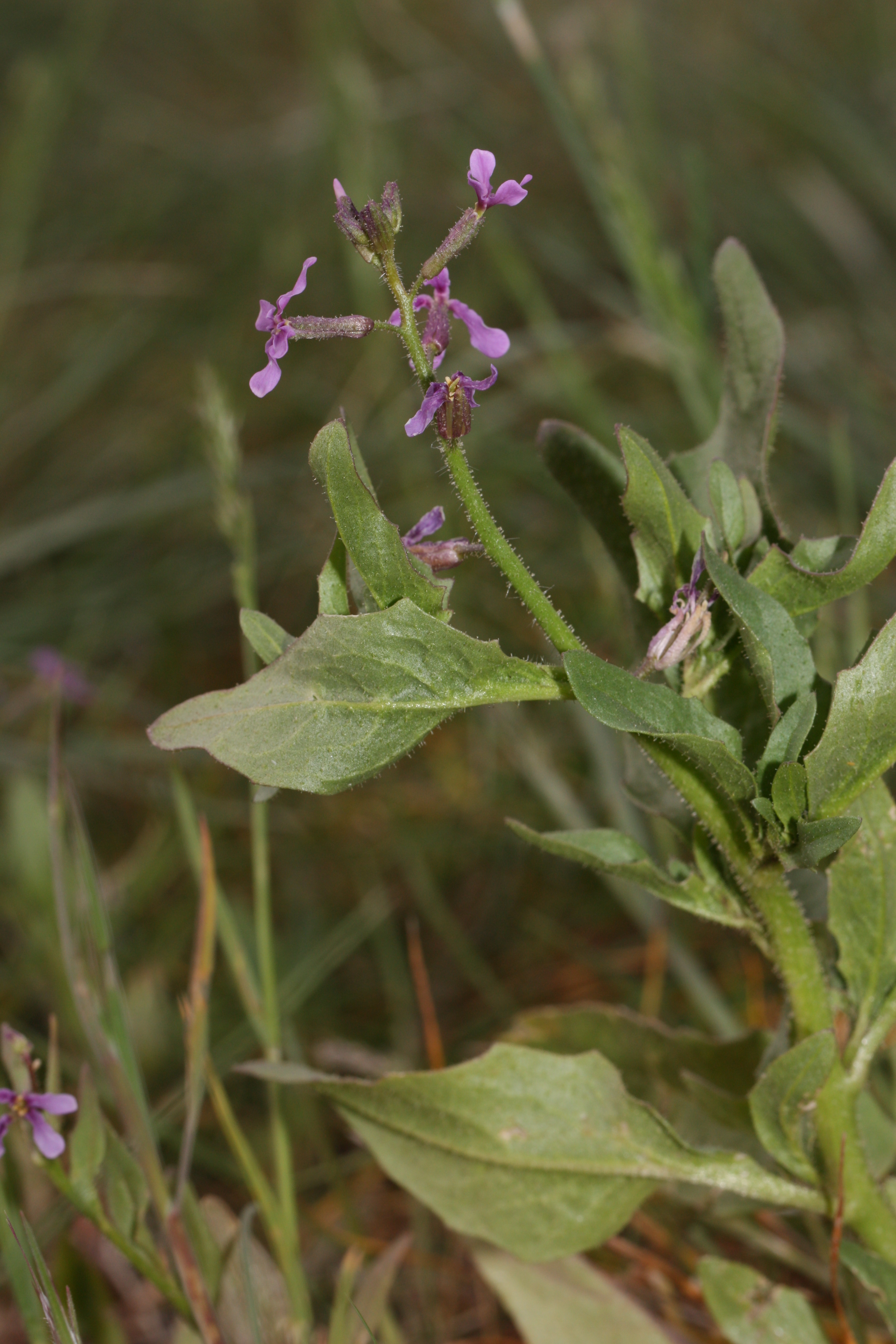 Crossflower, Blue Mustard